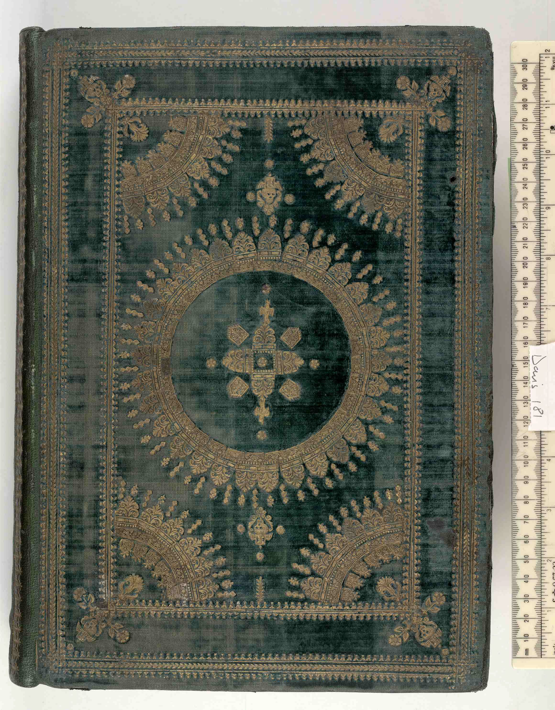 Style: Panel design; Caption: Upper cover; Colour: Blue; Edge: Gauffered